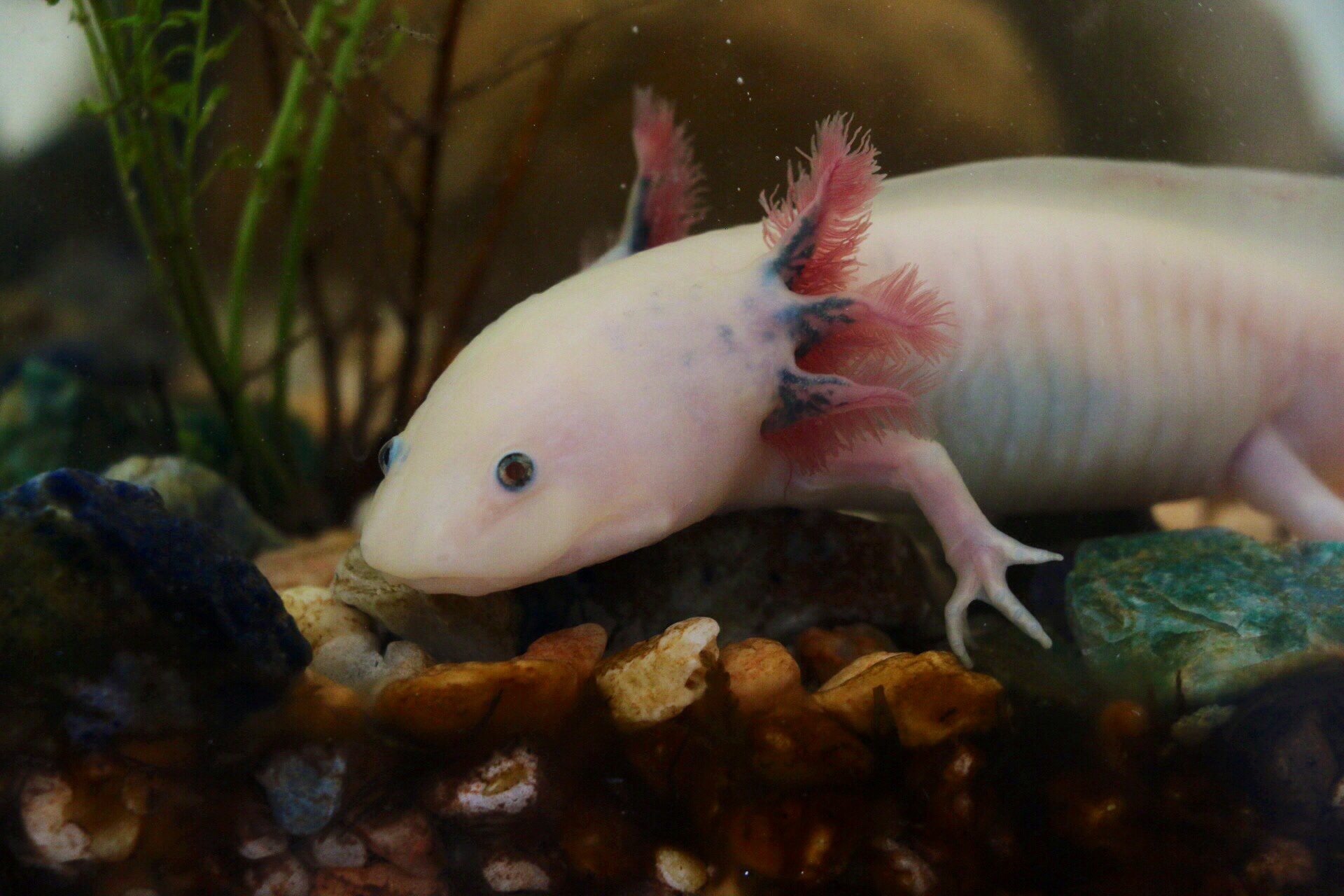 These endemic species from Mexico are in the ambystomatidae family, there are endangered. Native from the Mexican center.